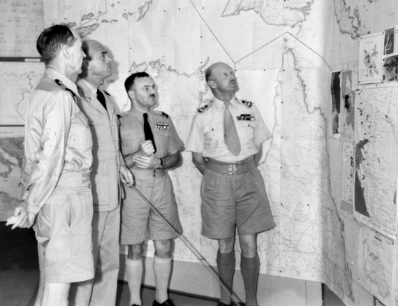 AWM caption: Western Australia. Lieutenant-General H. Gordon Bennett and Allied Naval, Army and Air Force Chiefs discuss tactical move on South-West Pacific Area war situation map. Shown are:- Commodore C.J. Pope, RAN - Naval Officer in Charge Fremantle (1); Captain A.R. McCann, United States Navy (2); Air Commodore R.J. Brownell, RAAF (3); NX70343 Lieutenant-General H. Gordon Bennett, CB, CMG, DSO, VD, General-Officer-Commanding 3 Australian Corps (4).